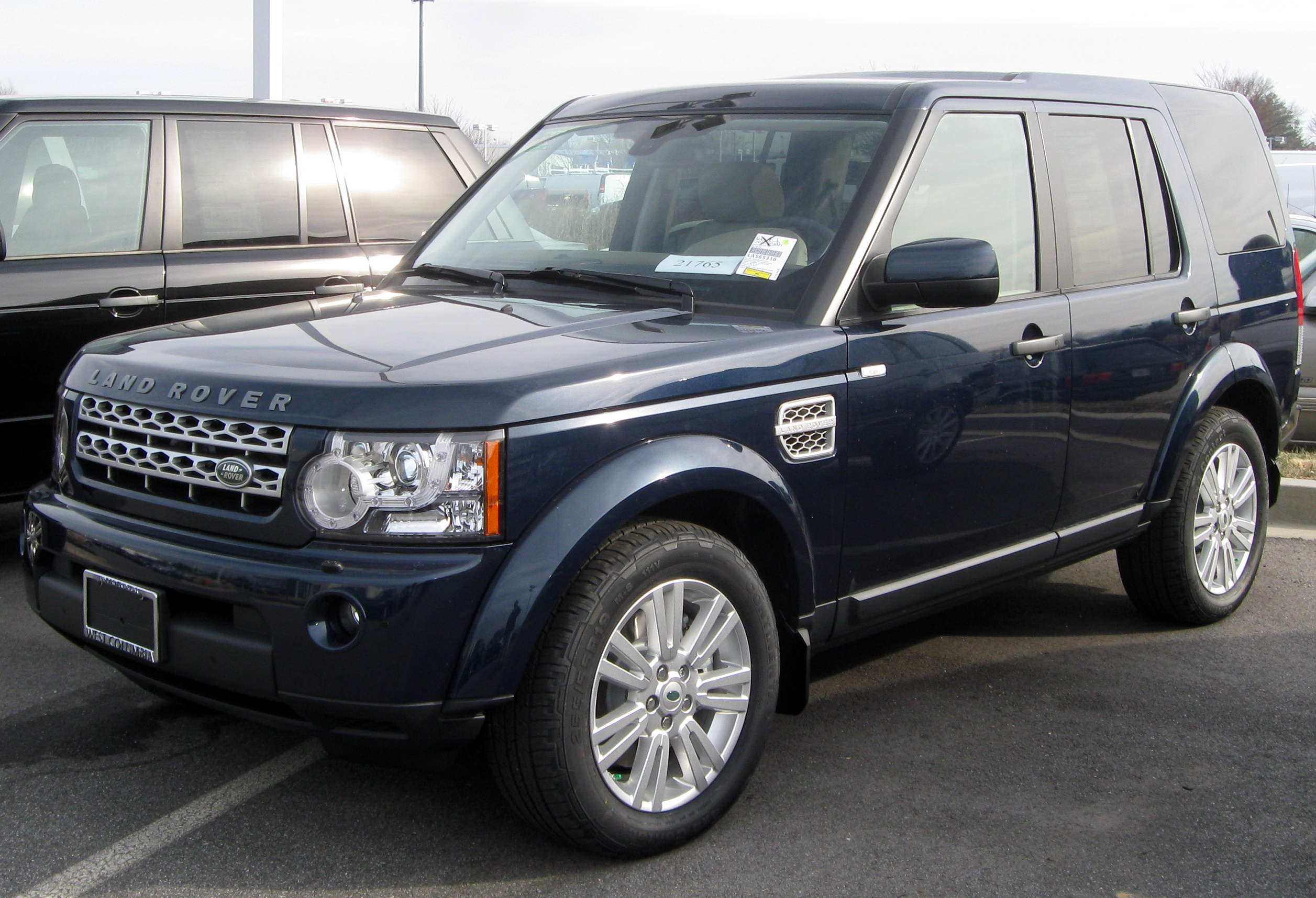 2011 Land Rover LR4 photographed in Clarksville, Maryland, USA.